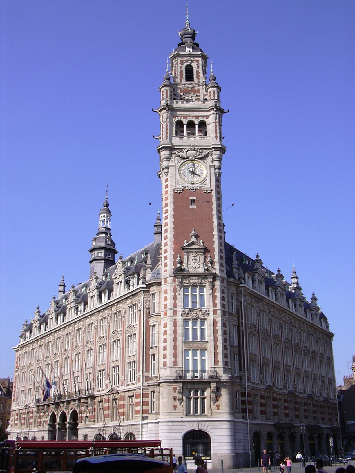 Belfry of the chamber of commerce in Lille (France). Photo taken on Sept. 21st 2003.